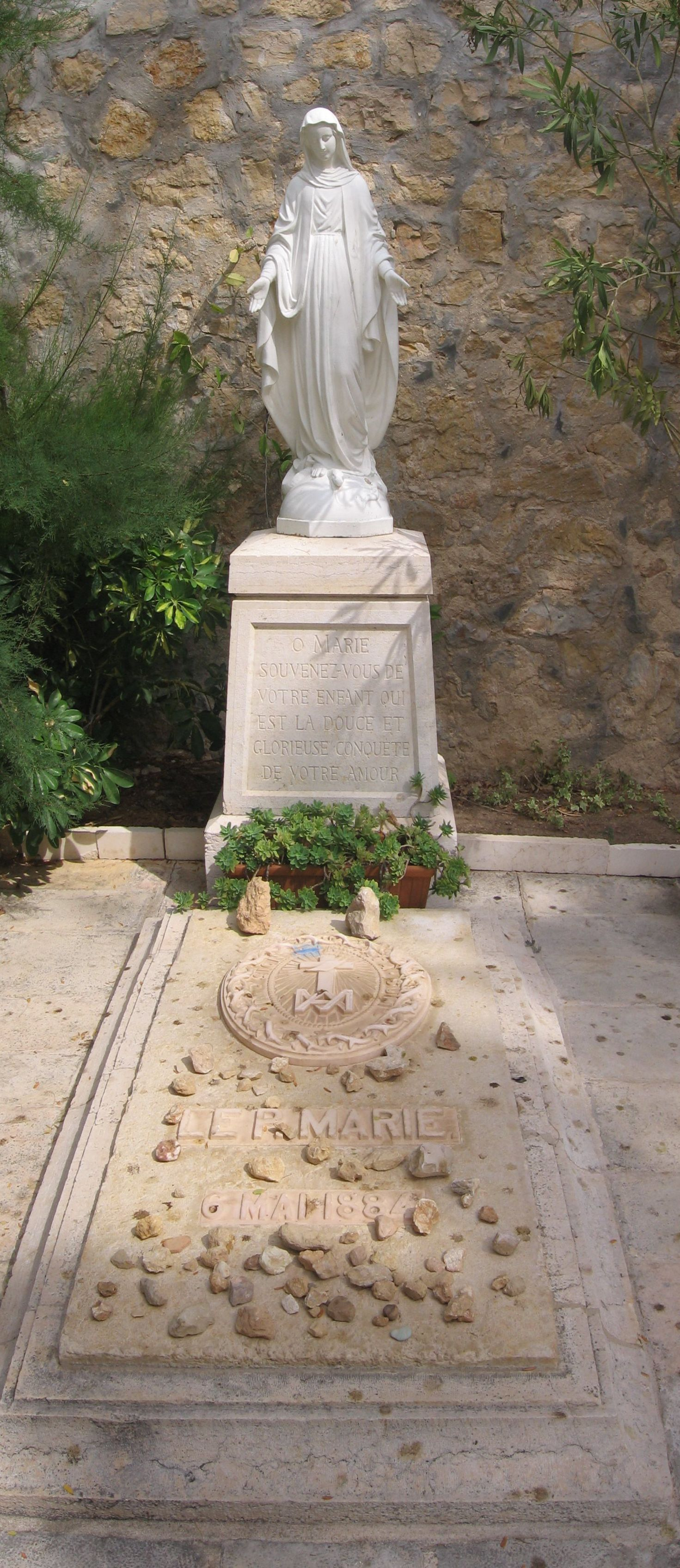 Marie-Alphonse Ratisbonne's tomb in Notre-Dame de Sion monastery's cemetery in Ein Kerem, Jerusalem.